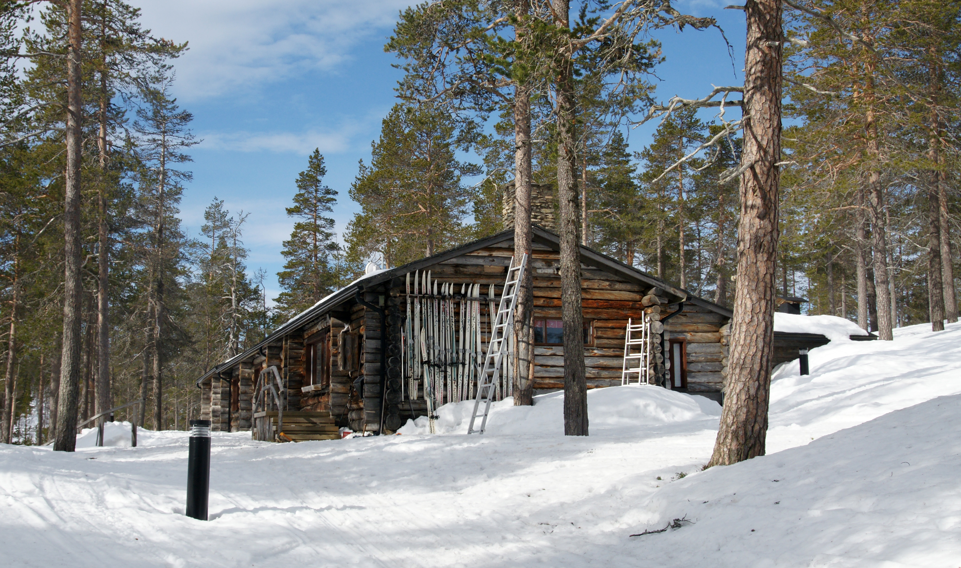 Värriö research station of the University of Helsinki in Salla municipality, Finland, situated in Värriö Natural Park.